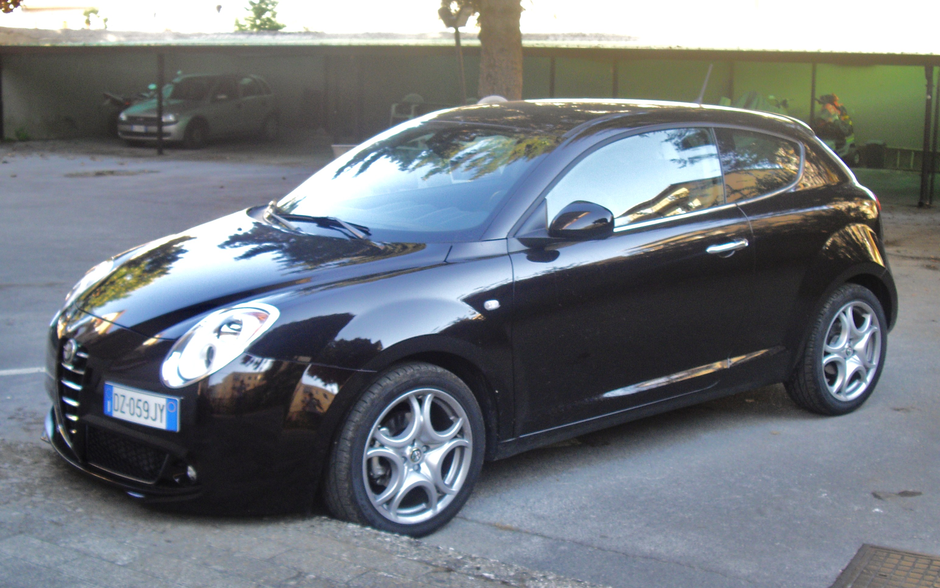 Alfa Romeo MiTo